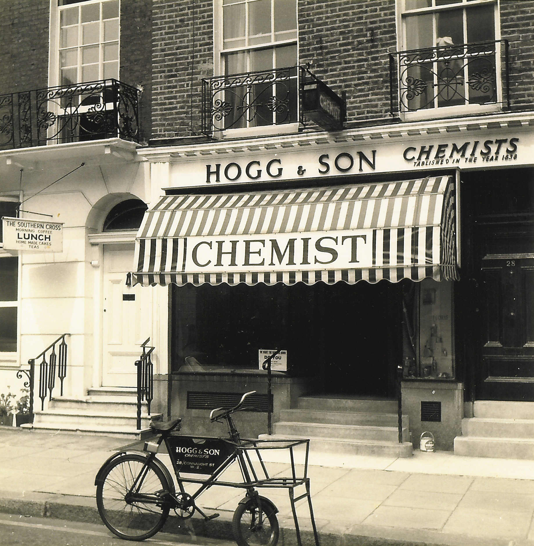 Hogg & Son, Ltd. Chemists (that is, pharmacy), 25 Kendal St, London, W2, with delivery bicycle out front.